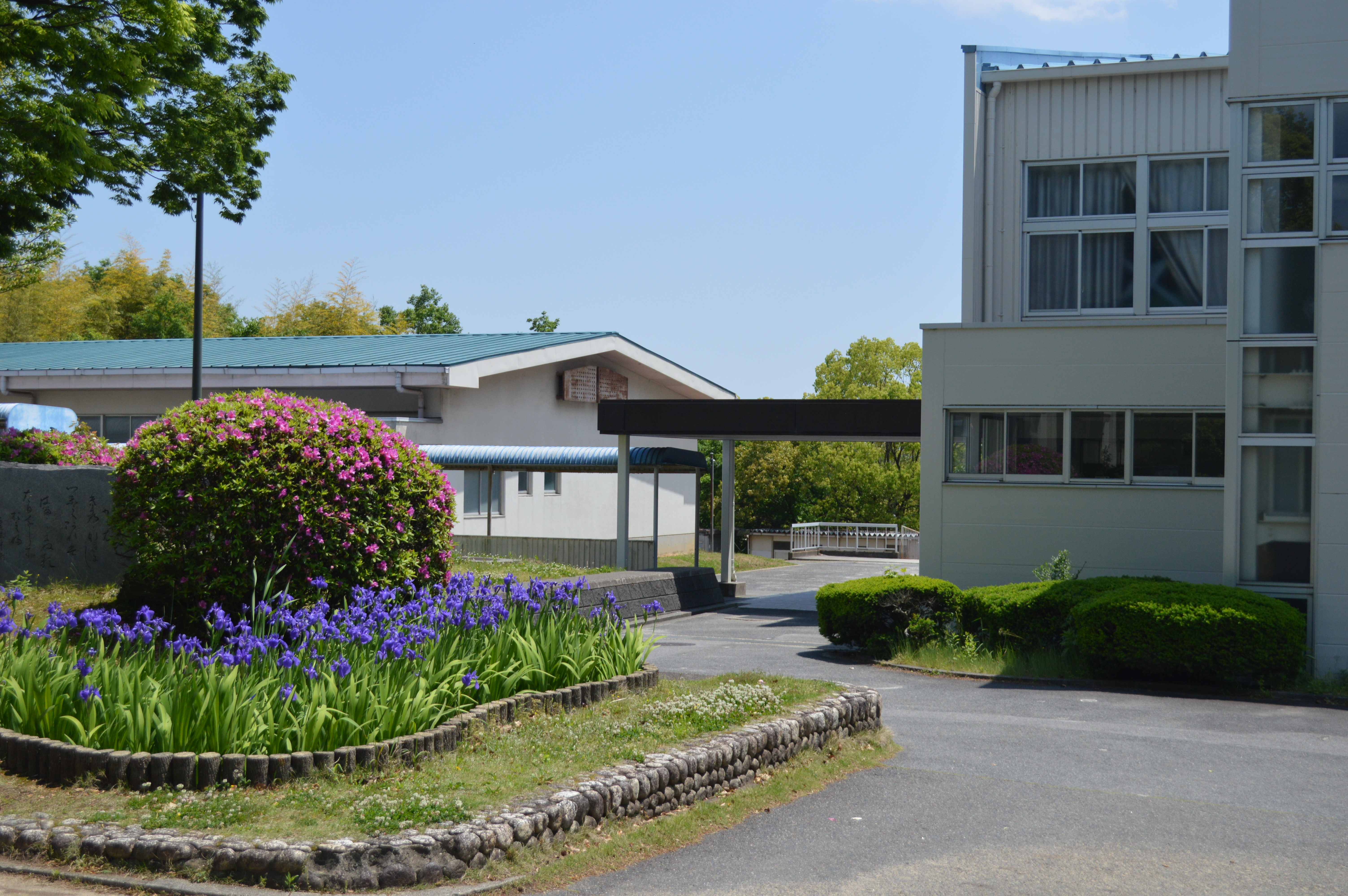 Senier High School Affiliated to Aichi University of Education, Kariya, Aichi, Japan.